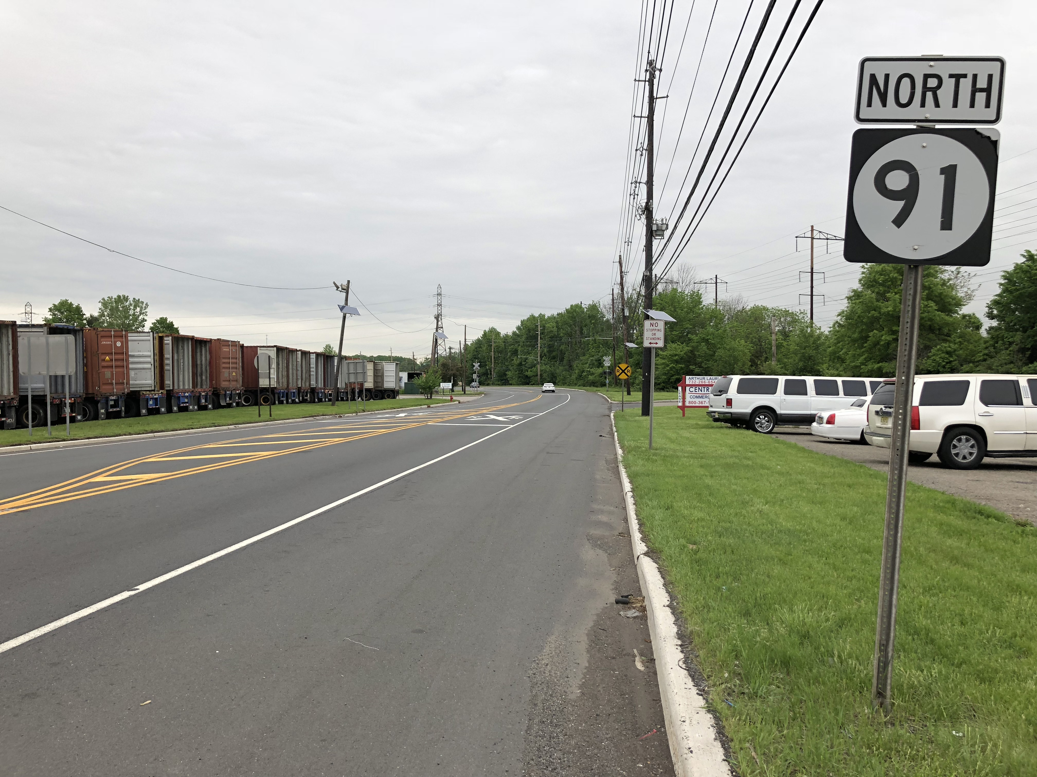 View north along New Jersey State Route 91 (Jersey Avenue) just north of U.S. Route 1 in North Brunswick Township, Middlesex County, New Jersey